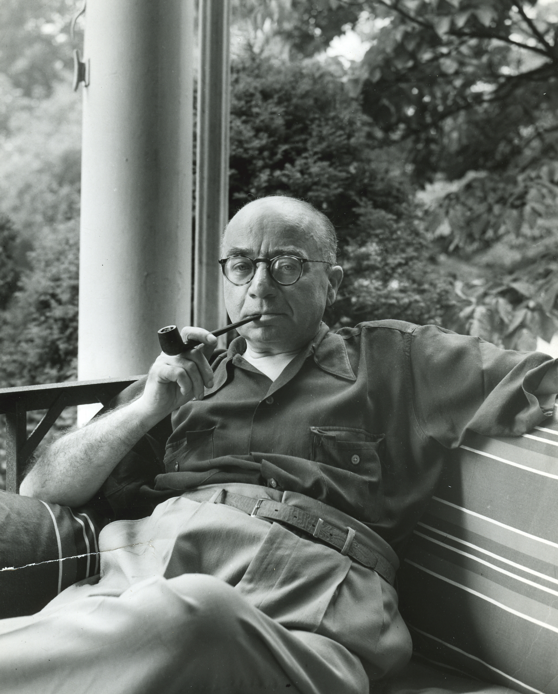 Portrait taken at Szyk's home in New Canaan, Connecticut, sometime after 1945, when Szyk was about 50 years old.